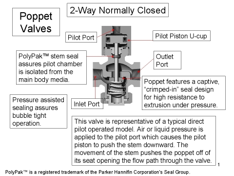 A diagram of the inside of a poppet valve